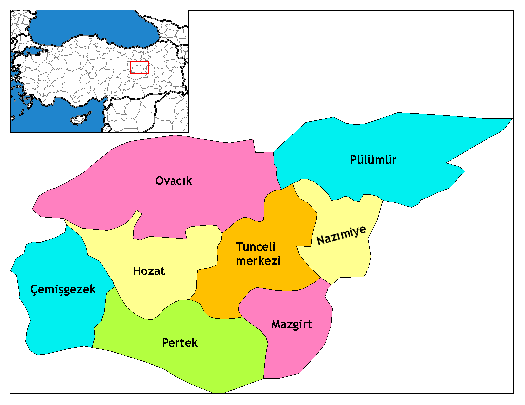 Map of the districts of Tunceli province in Turkey. Created by Rarelibra 17:52, 4 December 2006 (UTC) for public domain use, using MapInfo Professional v8.5 and various mapping resources. Edited by One Homo Sapiens Corrected text where İ,Ş,ı,ğ,or ş occurs in name. Source: [statoids-com]. Increased font size and enhanced color differences among adjacent districts.